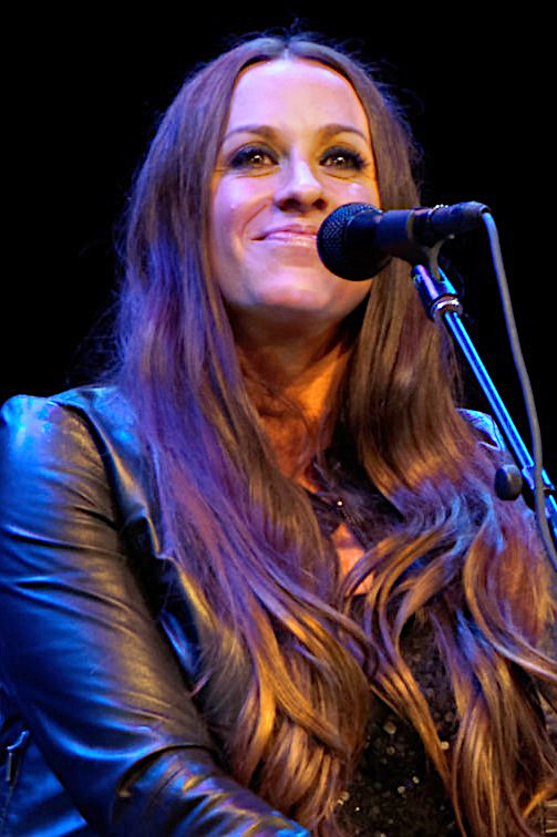 Alanis Morissette performing live at Marianne Williamson's pre-election rally, held at the Saban Theater in Beverly Hills California, on Monday May 19th, 2014.